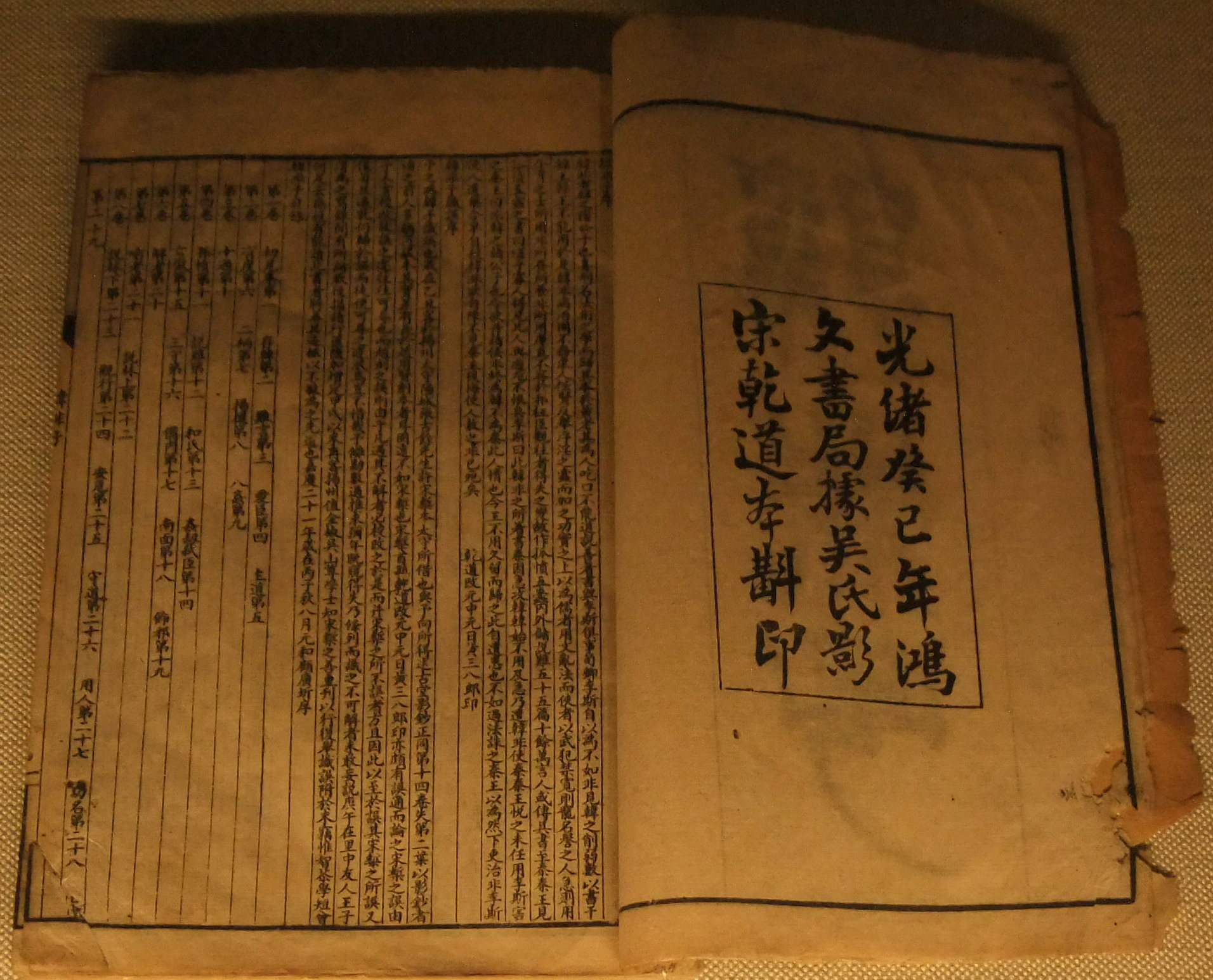 The book Hanfeizi or Han Feizi. An edition by Hongwen Book Company in the Guangxu period of the Qing dynasty (1644-1911). It is exhibited at the Hunan Provincial Museum.